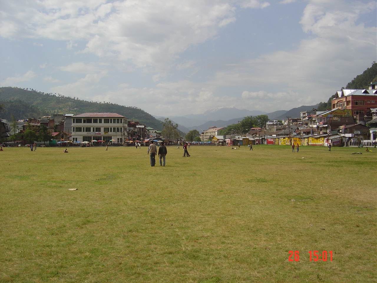 Chamba, Himachal Pradesh